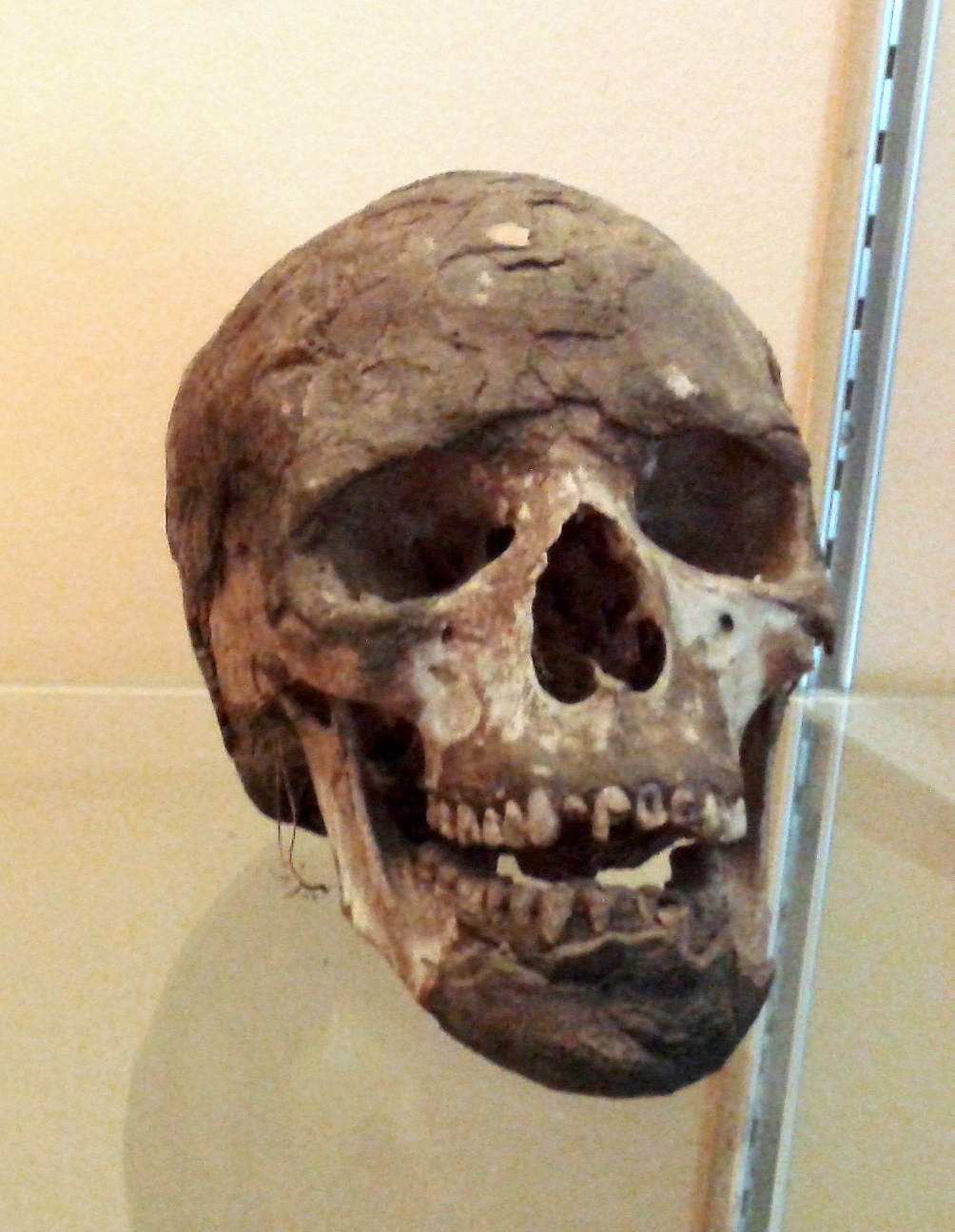 Mummified skull with remains of linen and resin.